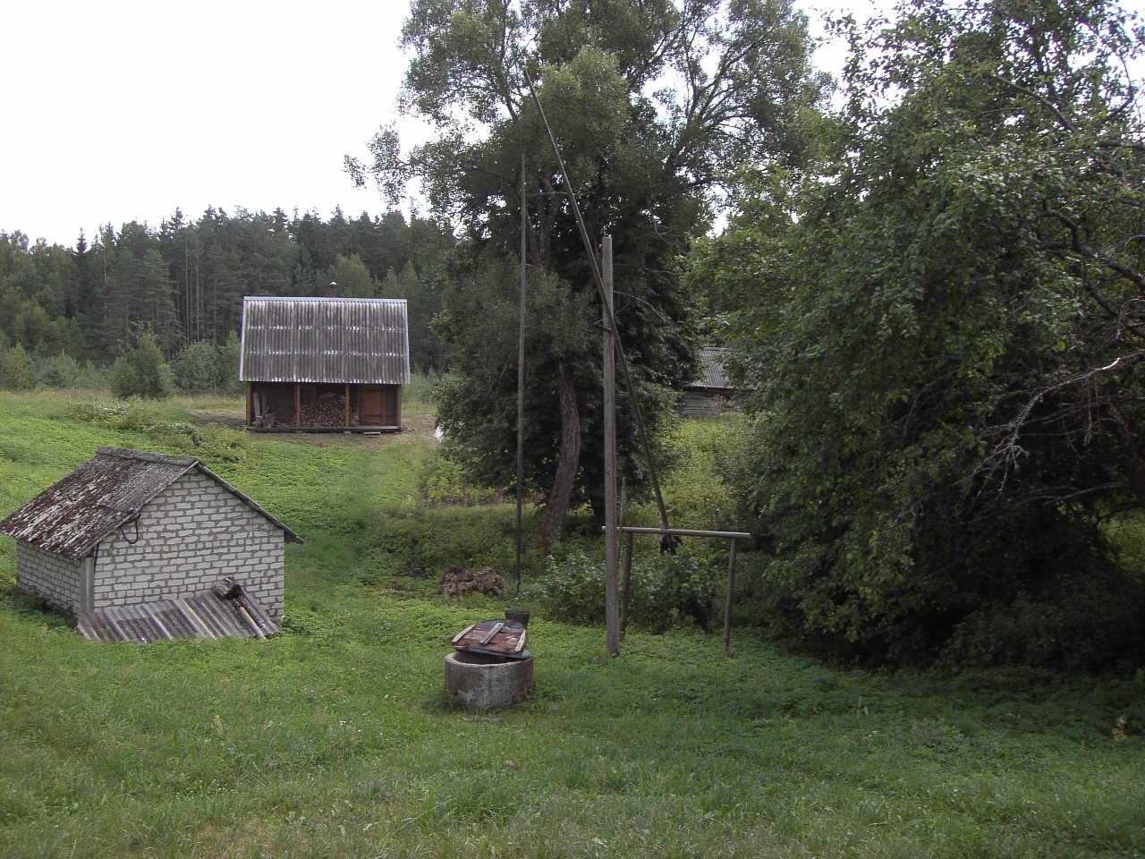 Village Šiliniškės, Ignalina district, Lithuania